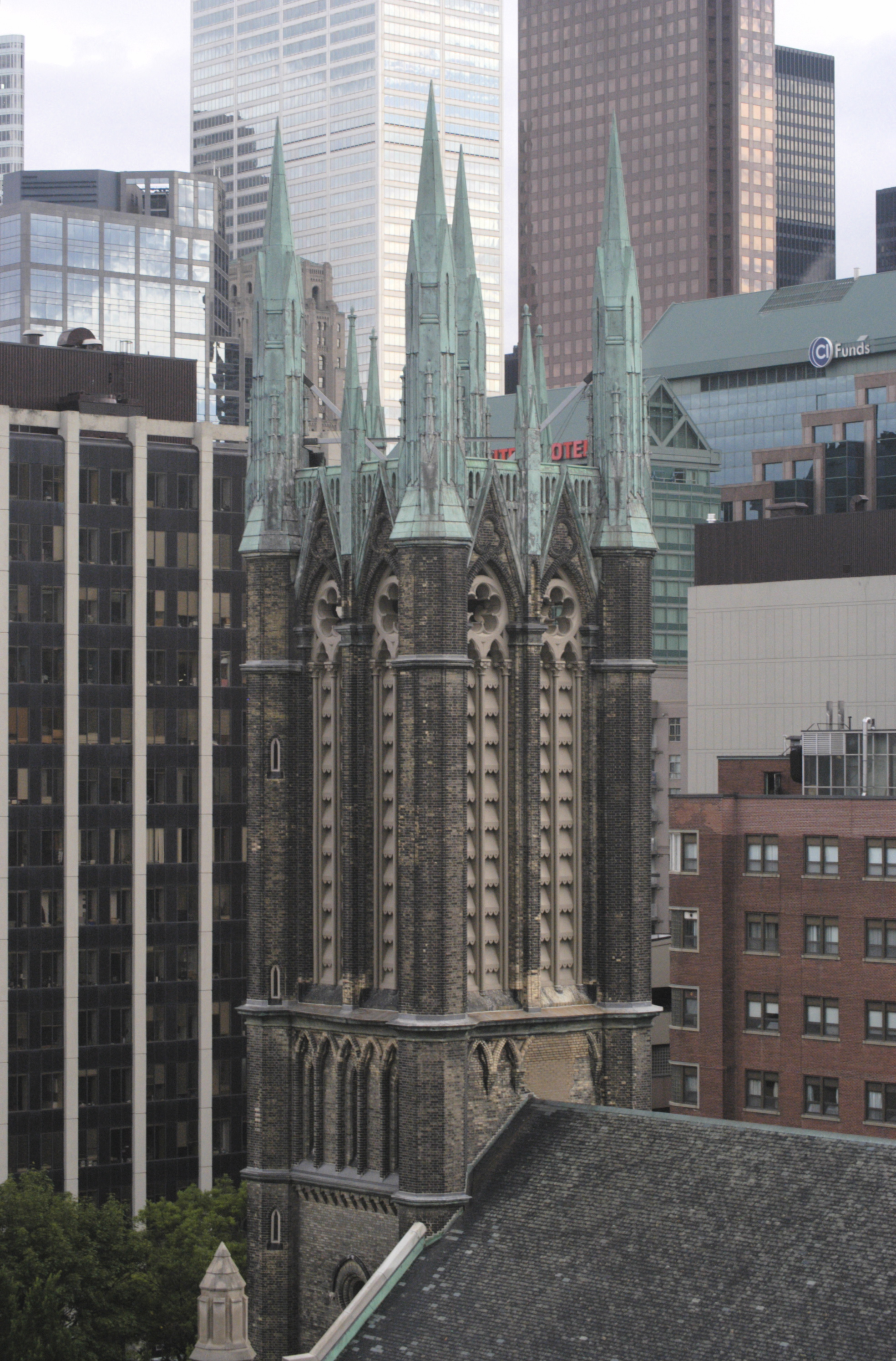 Looking southwest, Metropolitan United Church, Toronto, Canada